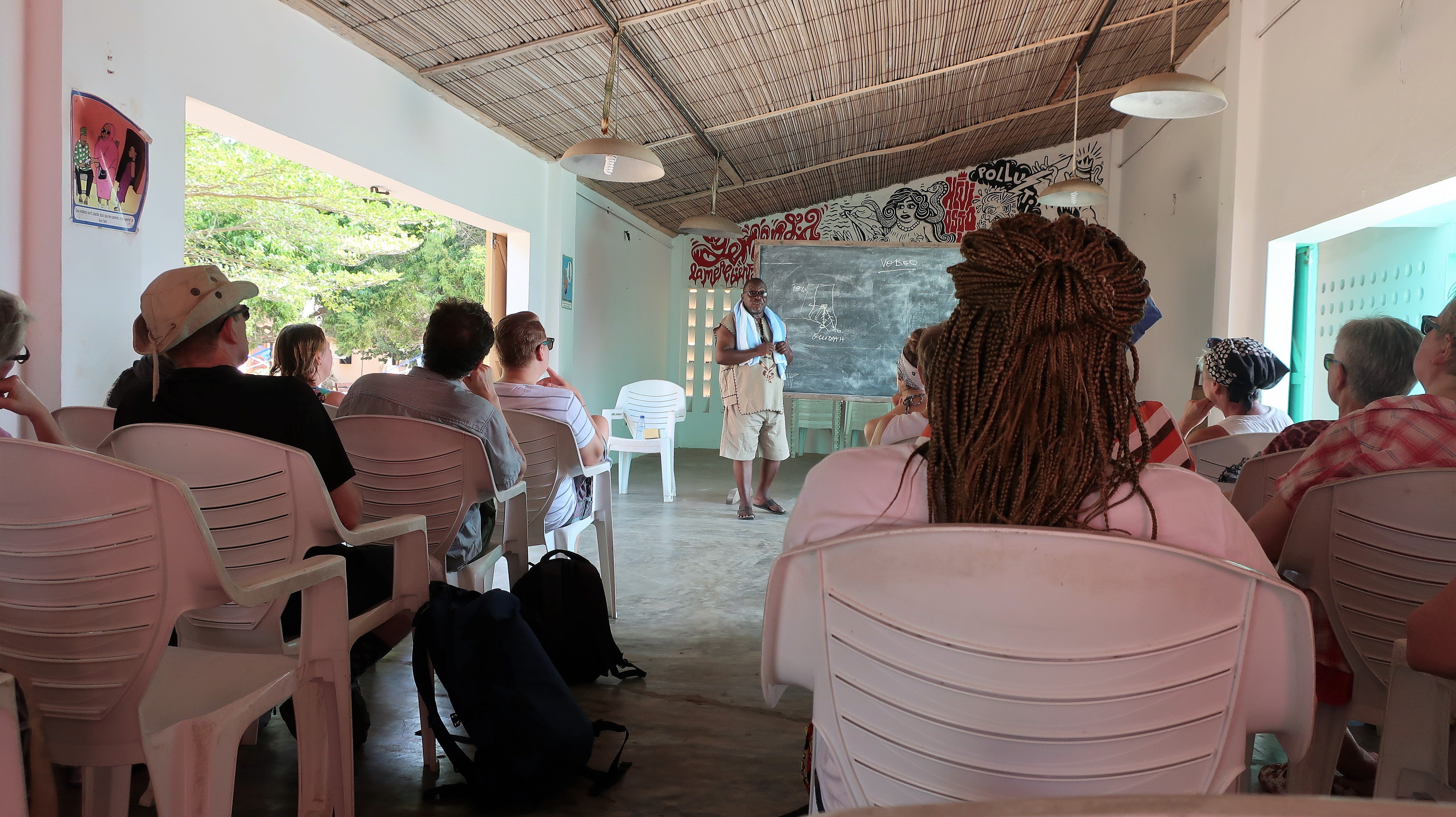 Director of the center Mr Kwassi Akpladokou giving a lecture in Villa Karo Finnish African Culture Center in Grand-Popo Benin in December 2017